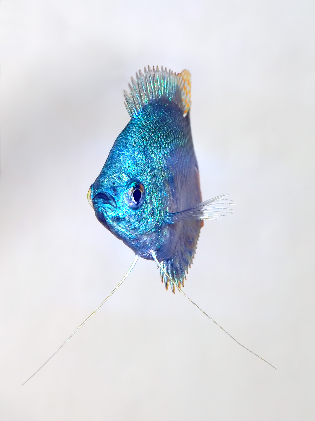 This image shows a Dwarf Gourami (Colisa lalia).